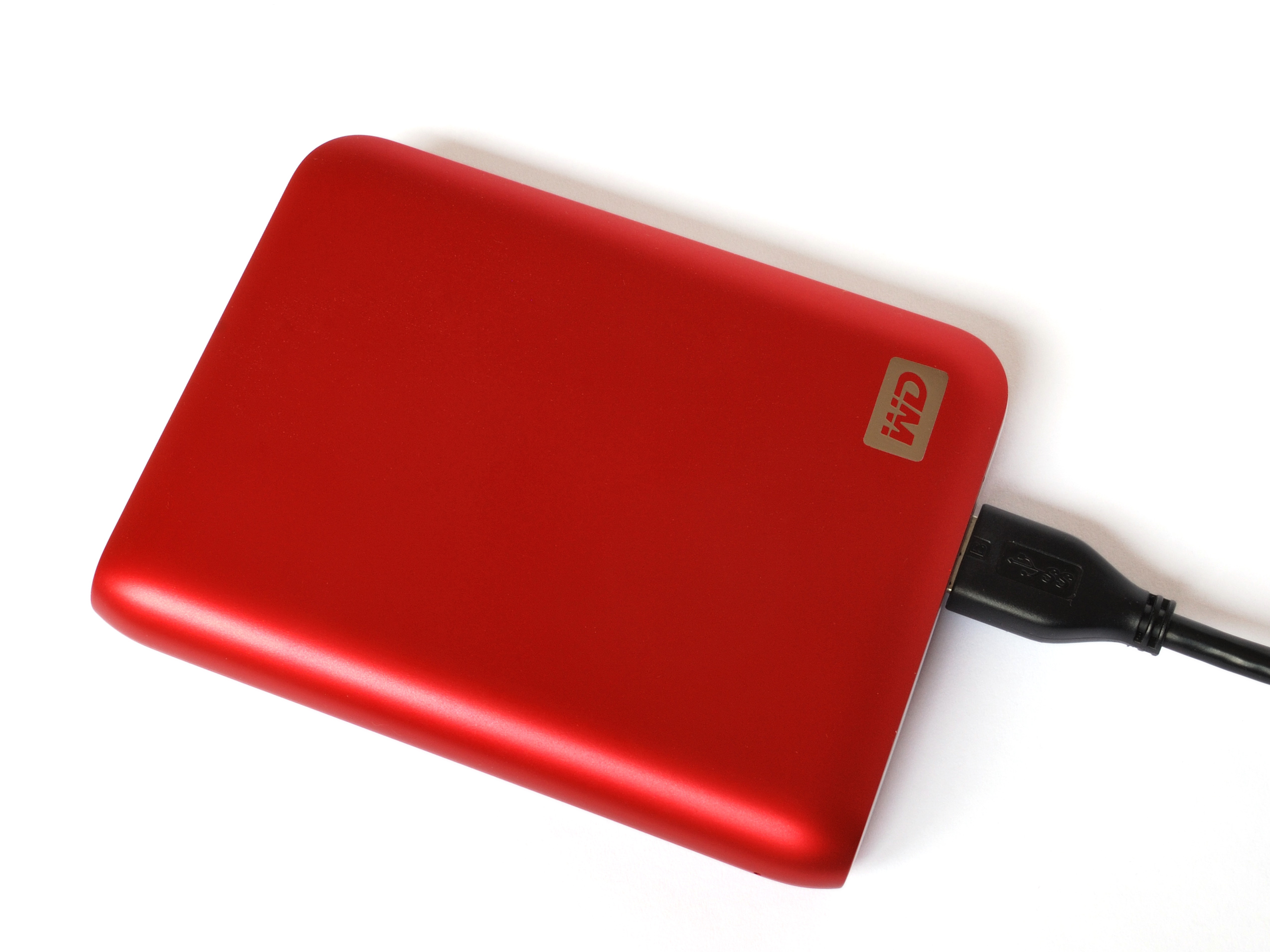 Portable Hard Drive 1 TB, 2.5 Inch, USB 3.0, Western Digital My Passport Essential SE, housing metallic red.